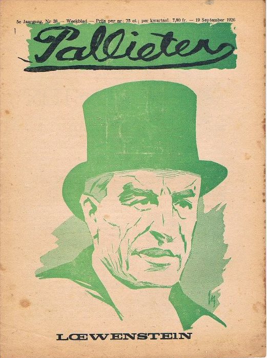 Alfred Loewenstein; front page of the Flemish magazine Pallieter (19 Sept. 1926). All front pages were designed and illustrated by Jos De Swerts (1890-1939).